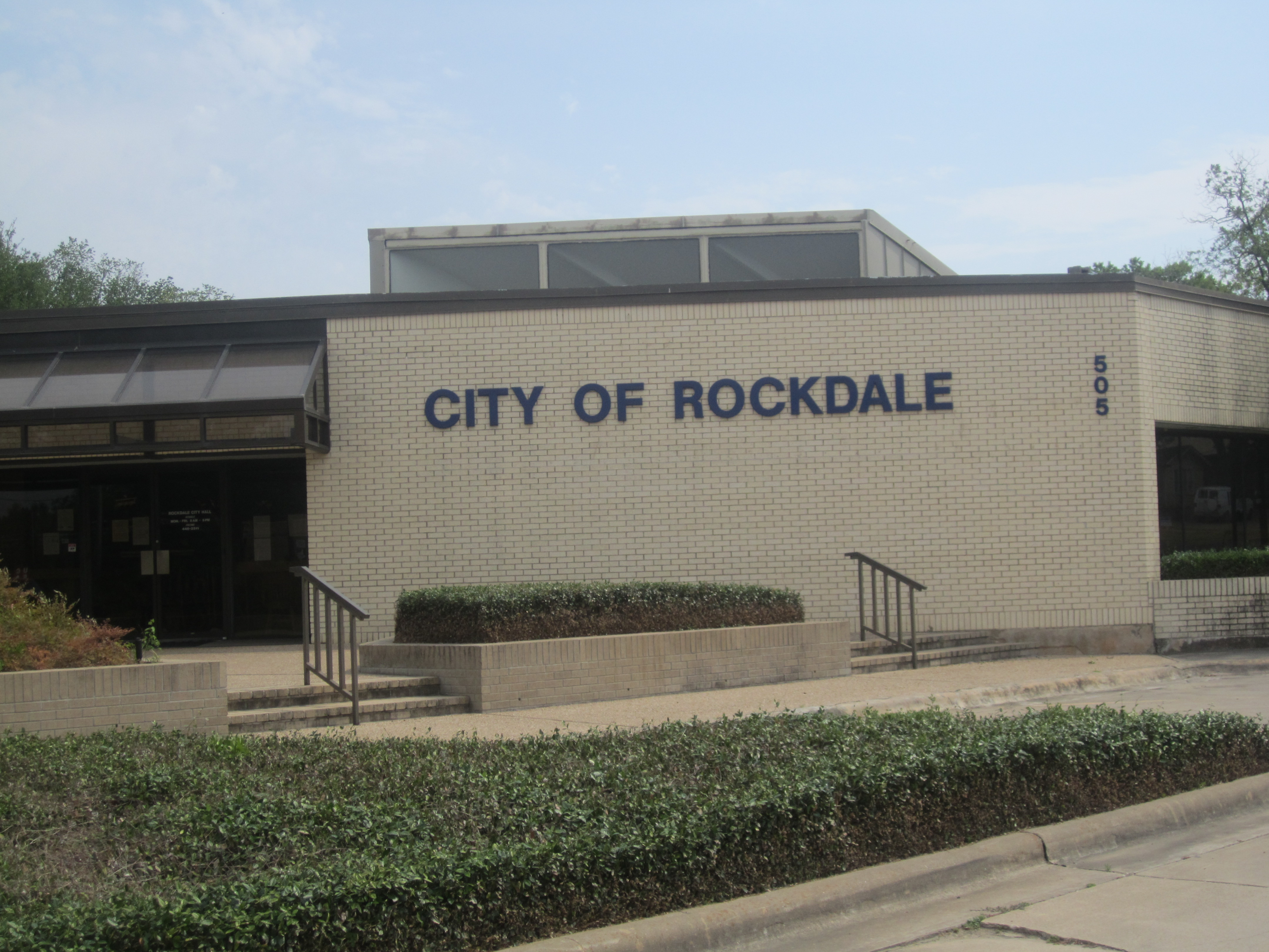 I took photo of Rockdale City Hall in Rockdale, TX, with Canon camera.